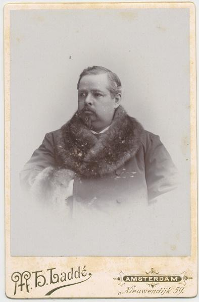 Dutch photographer and film pioneer Johan (J.W.) Merkelbach